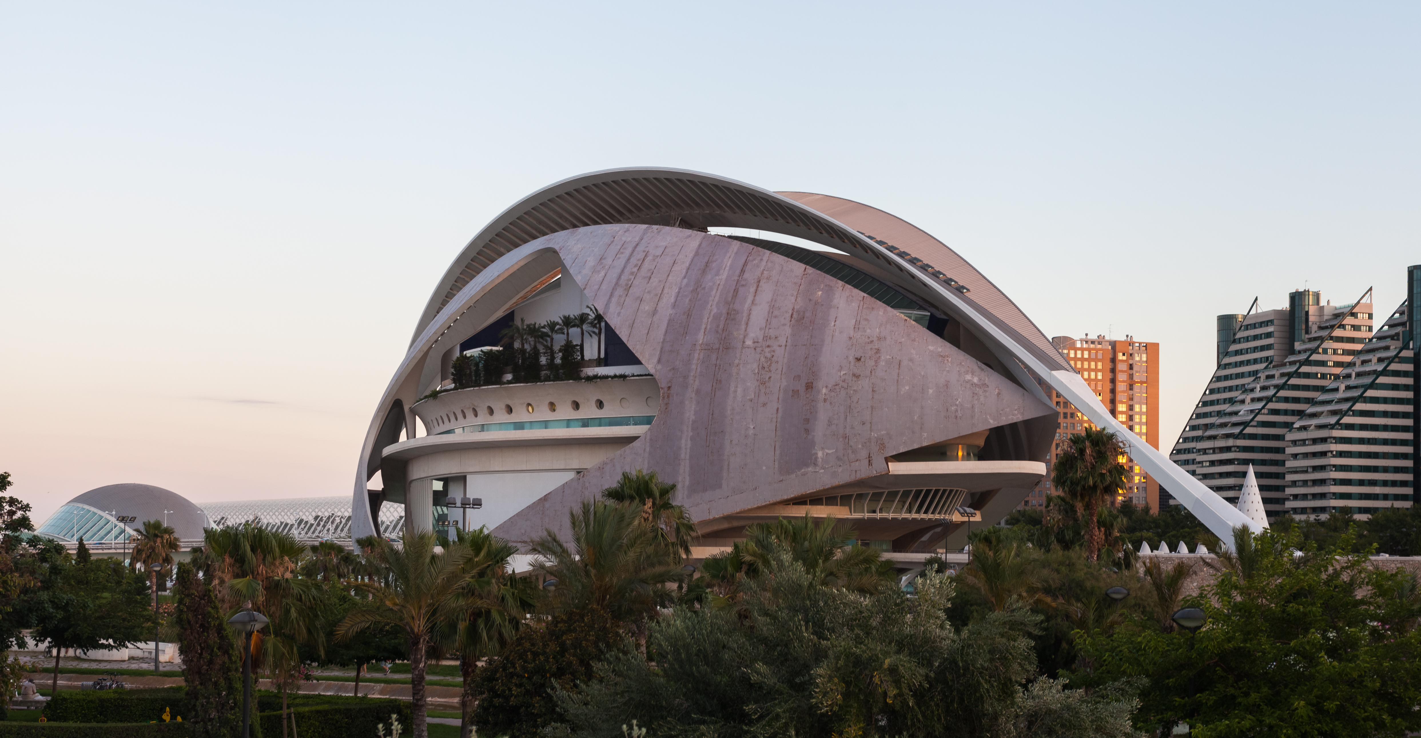 Arts Palace Queen Sophie, City of Arts and Sciences, Valencia, Spain